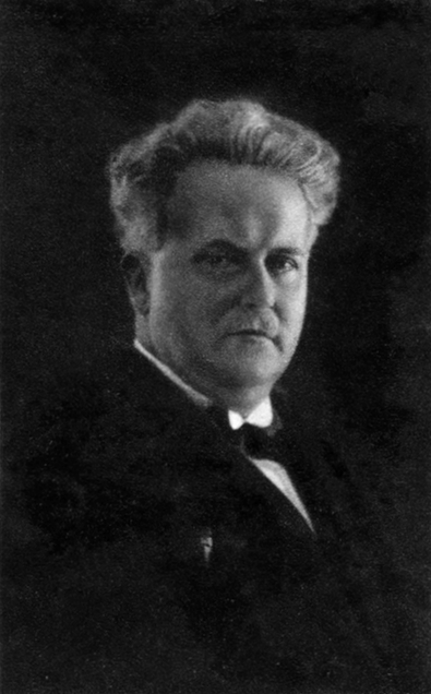 Viktor Dyk in age 50.